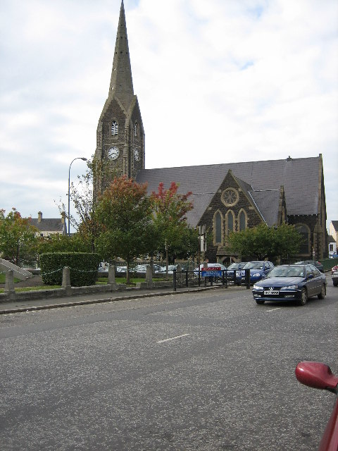 Shankill Parish Church, Lurgan. In 1718, the Vestry of Shankill (in Irish sean kill=old church)agree to build a new Parish Church in the centre of Lurgan. This is probably a later one, as the spire was completed in 1831.